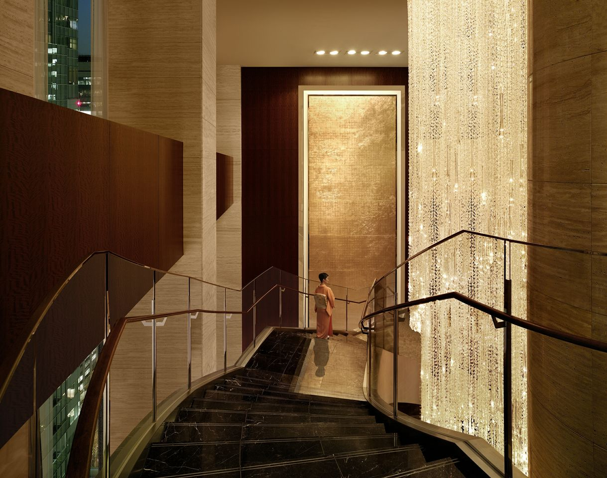 staircase